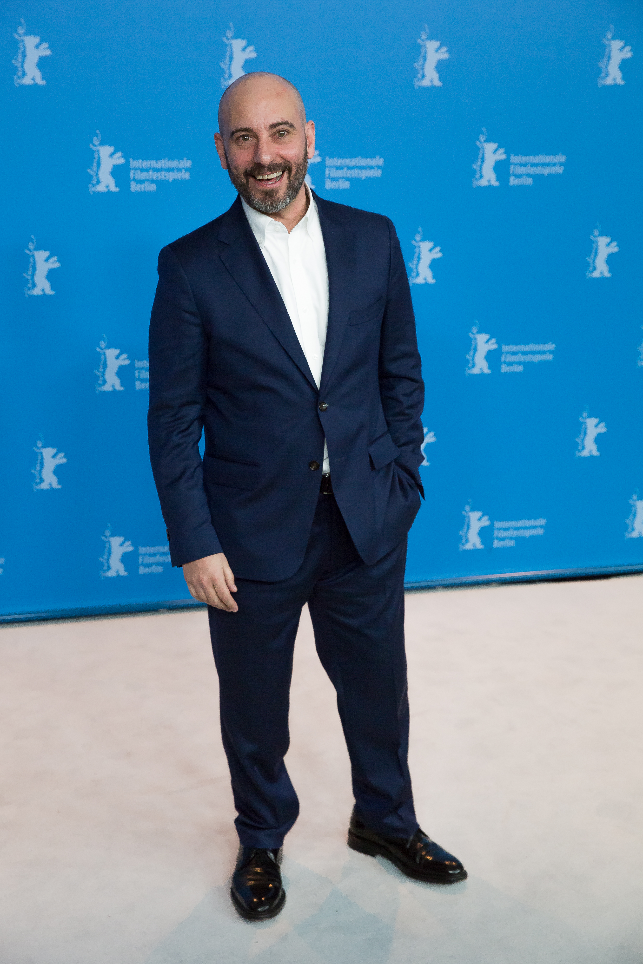 The actor Jaime Ordóñez presenting the movie The Bar at the Berlinale 2017